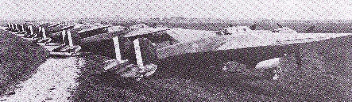 Italian Breda Ba.88 bombers